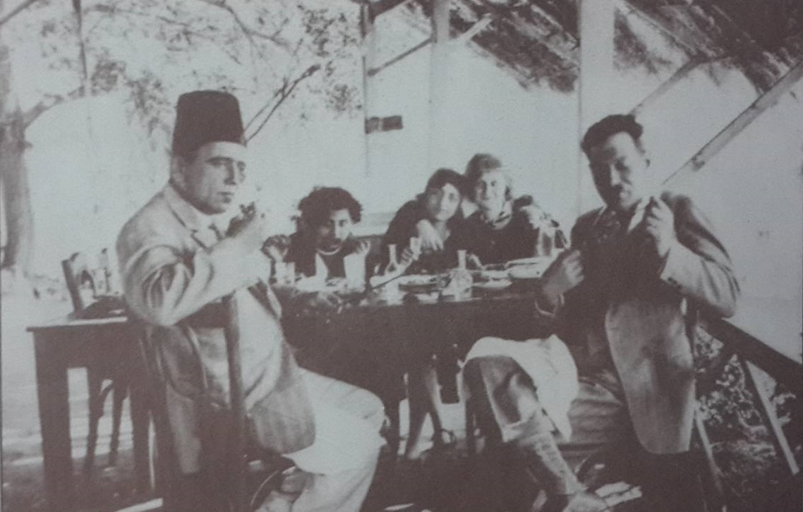 Naguib el-Rihani and some of his friends during his tour in Lebanon and the Levant in 1920.